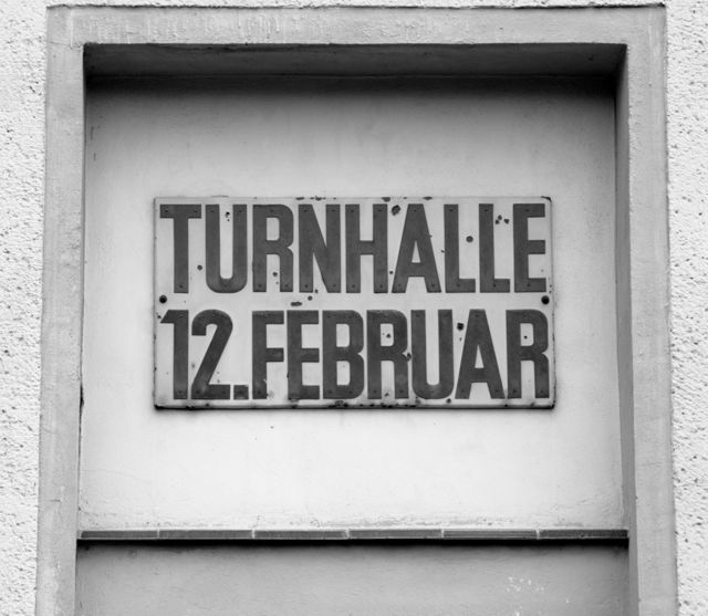 Turnhalle des 12. Februar, Zeißinstraße 19, Lutherstadt Eisleben, commemorative plaque